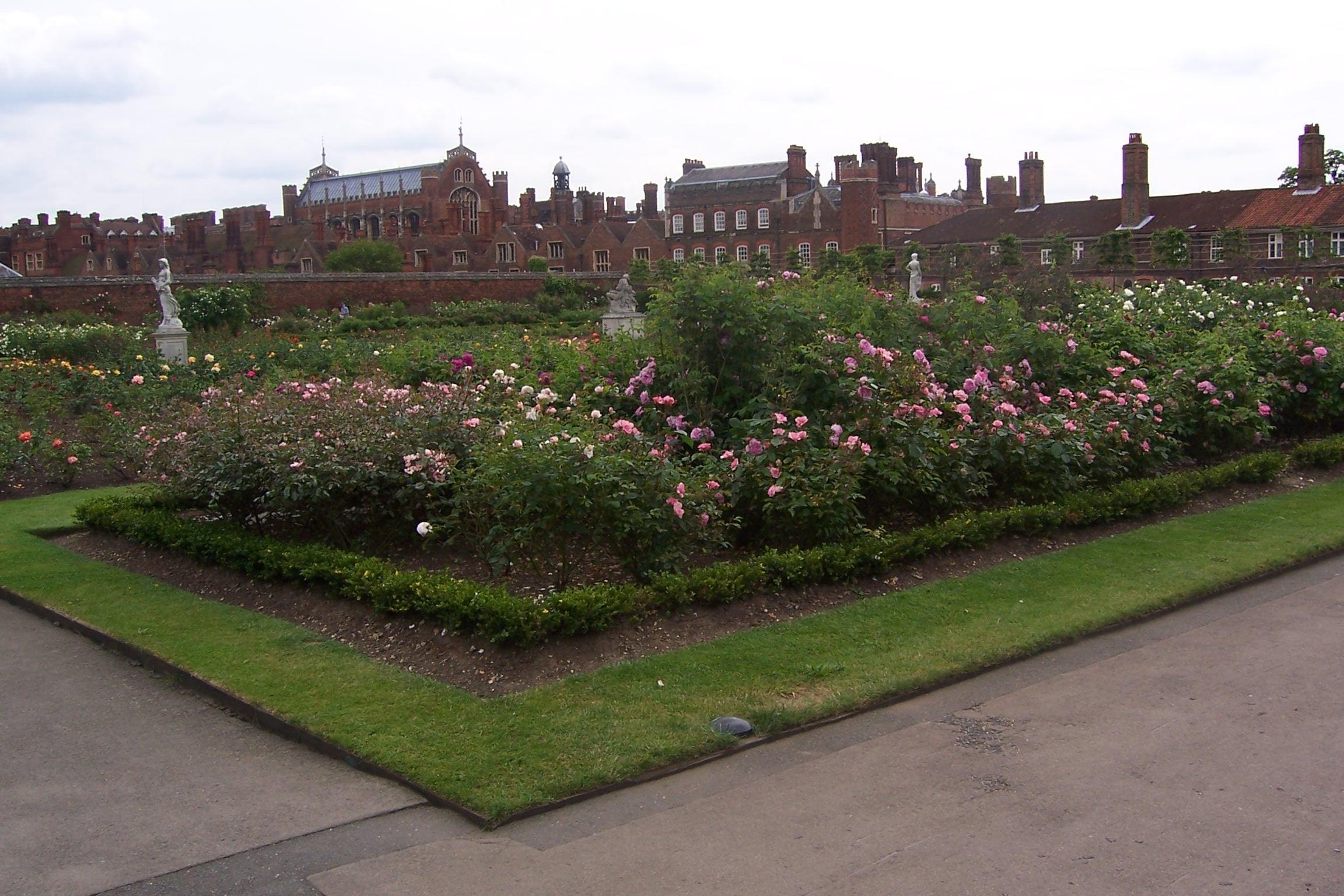 Gardens and exterior of Hampton Court Palace, United Kingdom